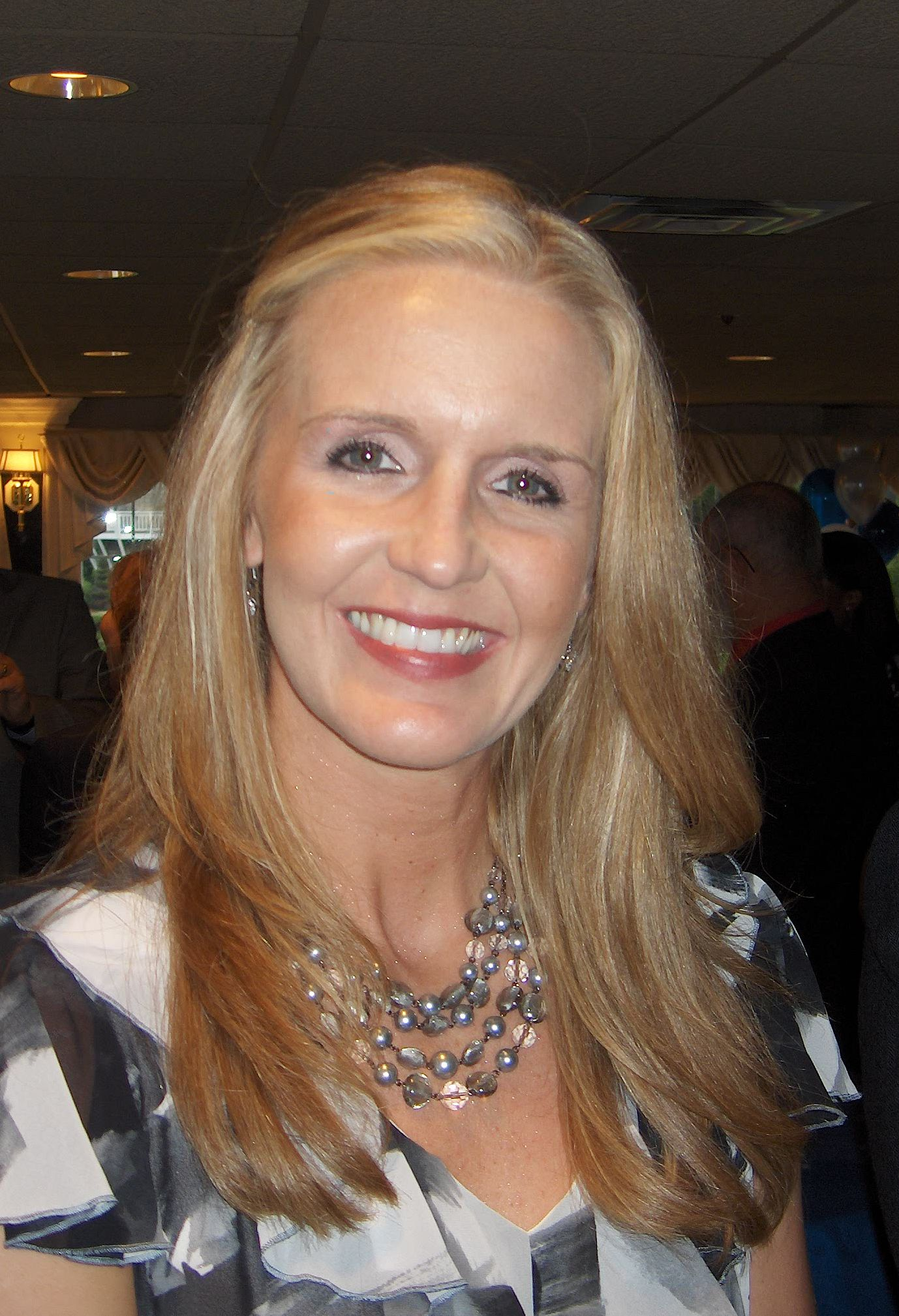 Picture of former UConn star, now UConn coach, Shea Ralph taken at Championship Dinner